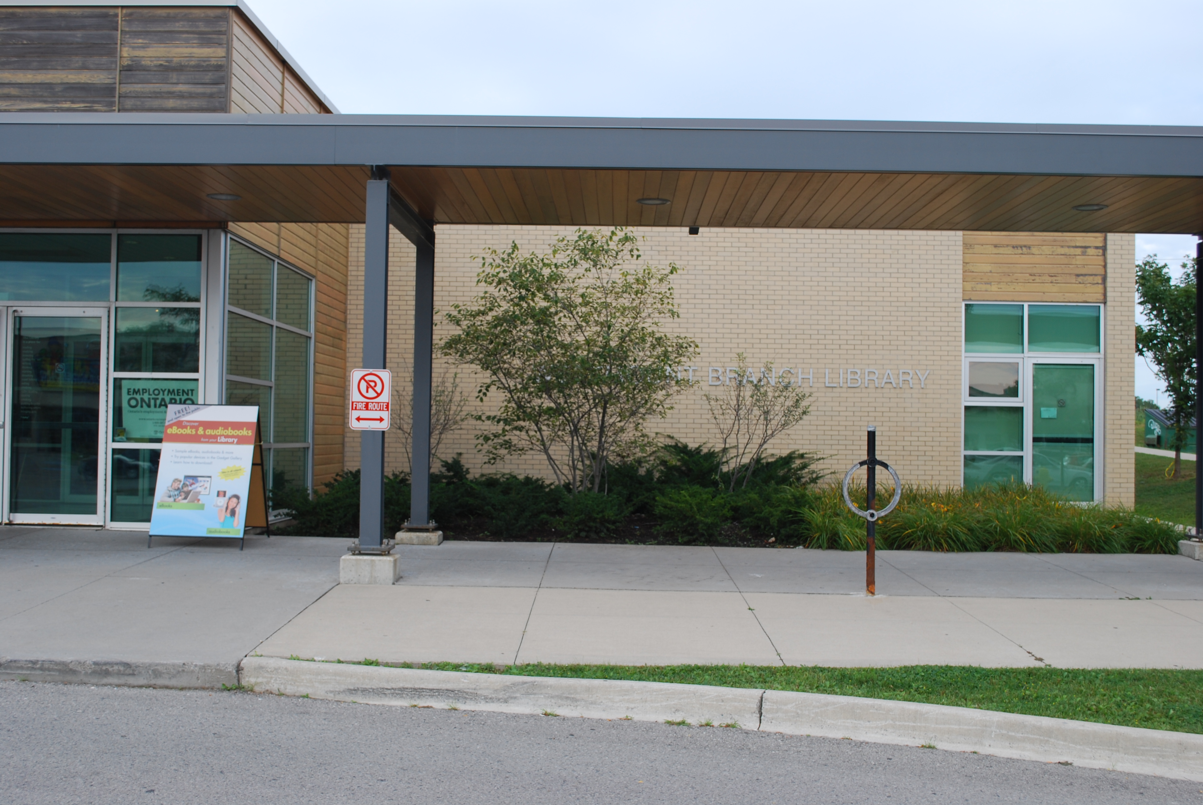 Aug. 27, 2009 Westmount Branch Library London, ON Download at